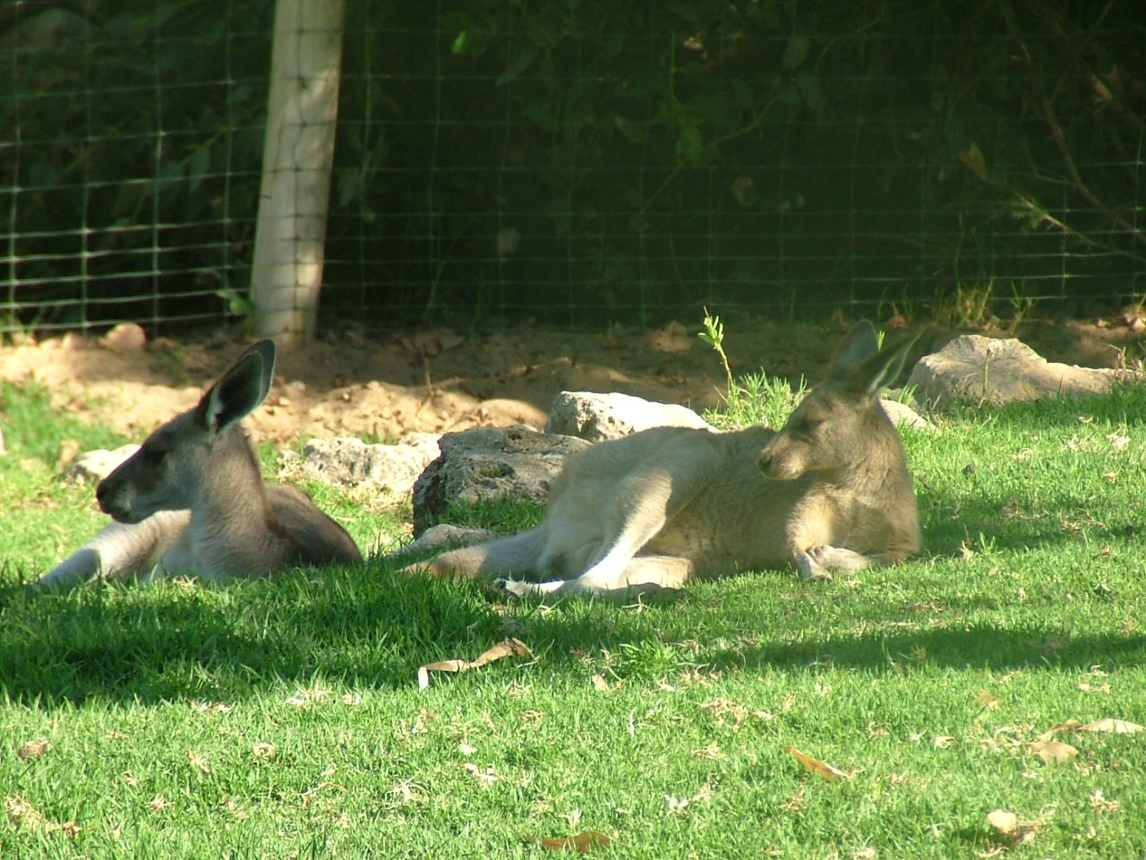 Eastern Grey Kangaroos (Macropus giganteus) in the Australian section of the Jerusalem Biblical Zoo.